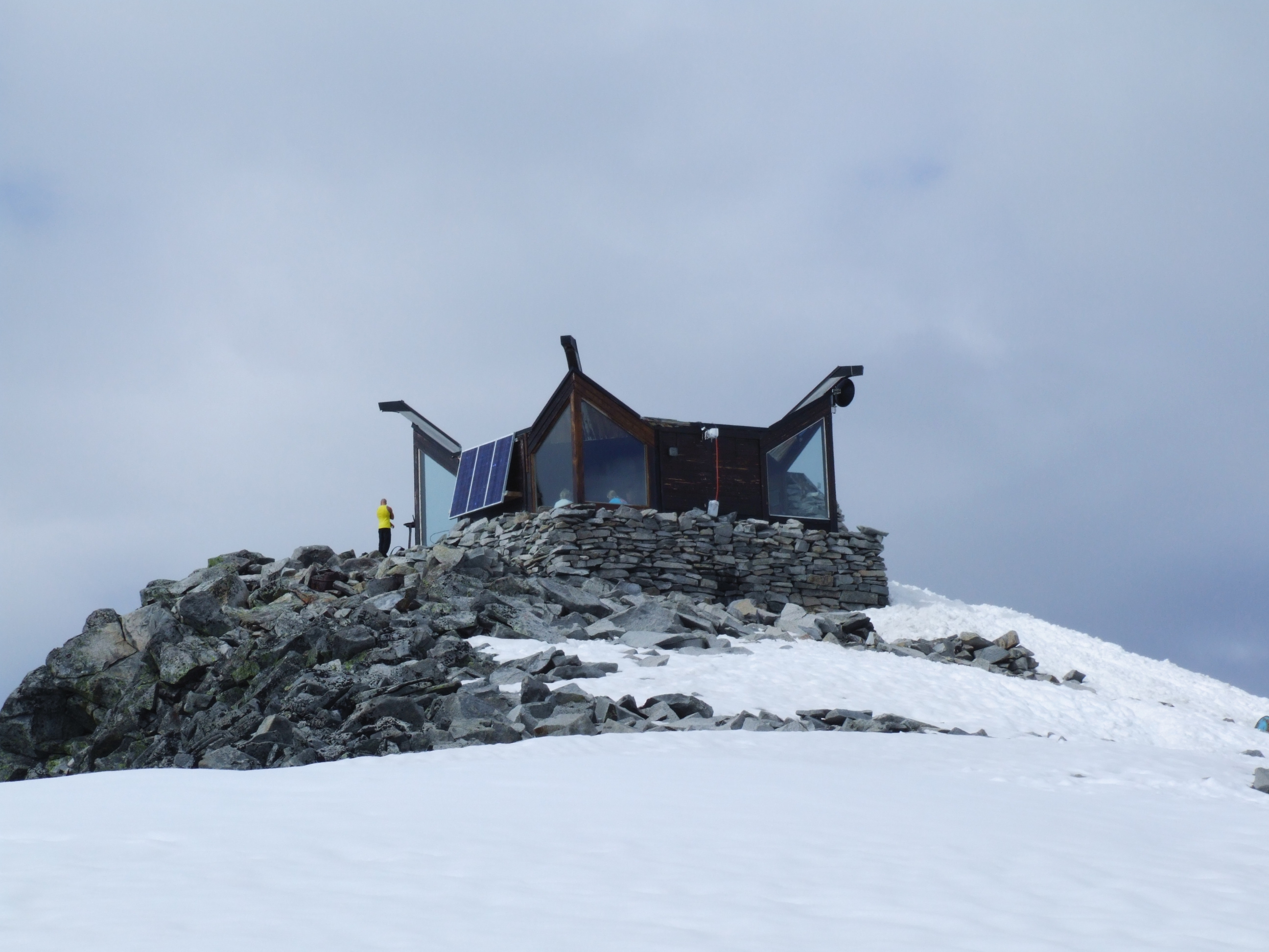 Knut Voles hytte - mountain hut on Galdhøpiggen, Norway